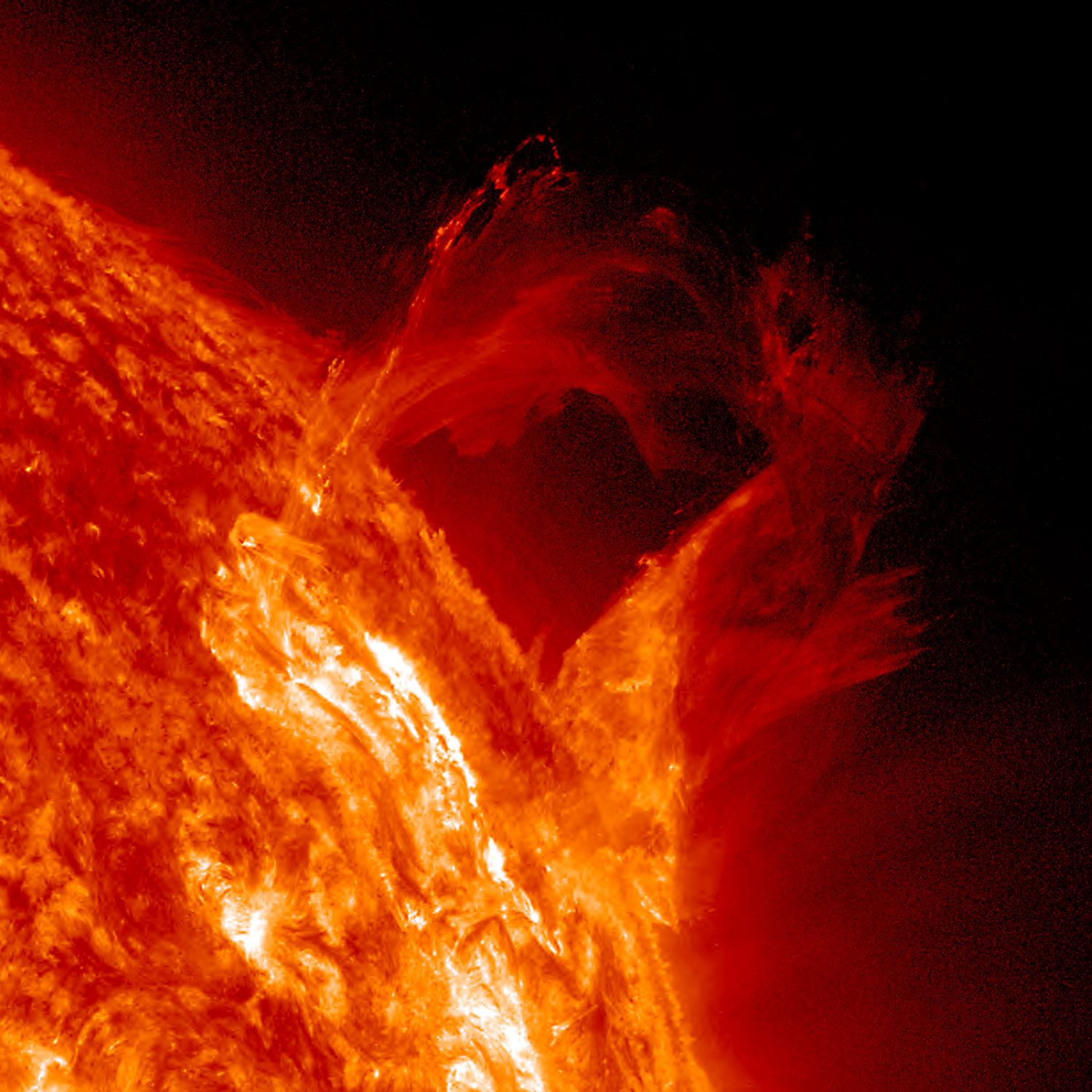 A solar prominence began to bow out and the broke apart in a graceful, floating style in a little less than four hours (Mar. 16, 2013). The sequence was captured in extreme ultraviolet light. A large cloud of the particles appeared to hover further out above the surface before it faded away.